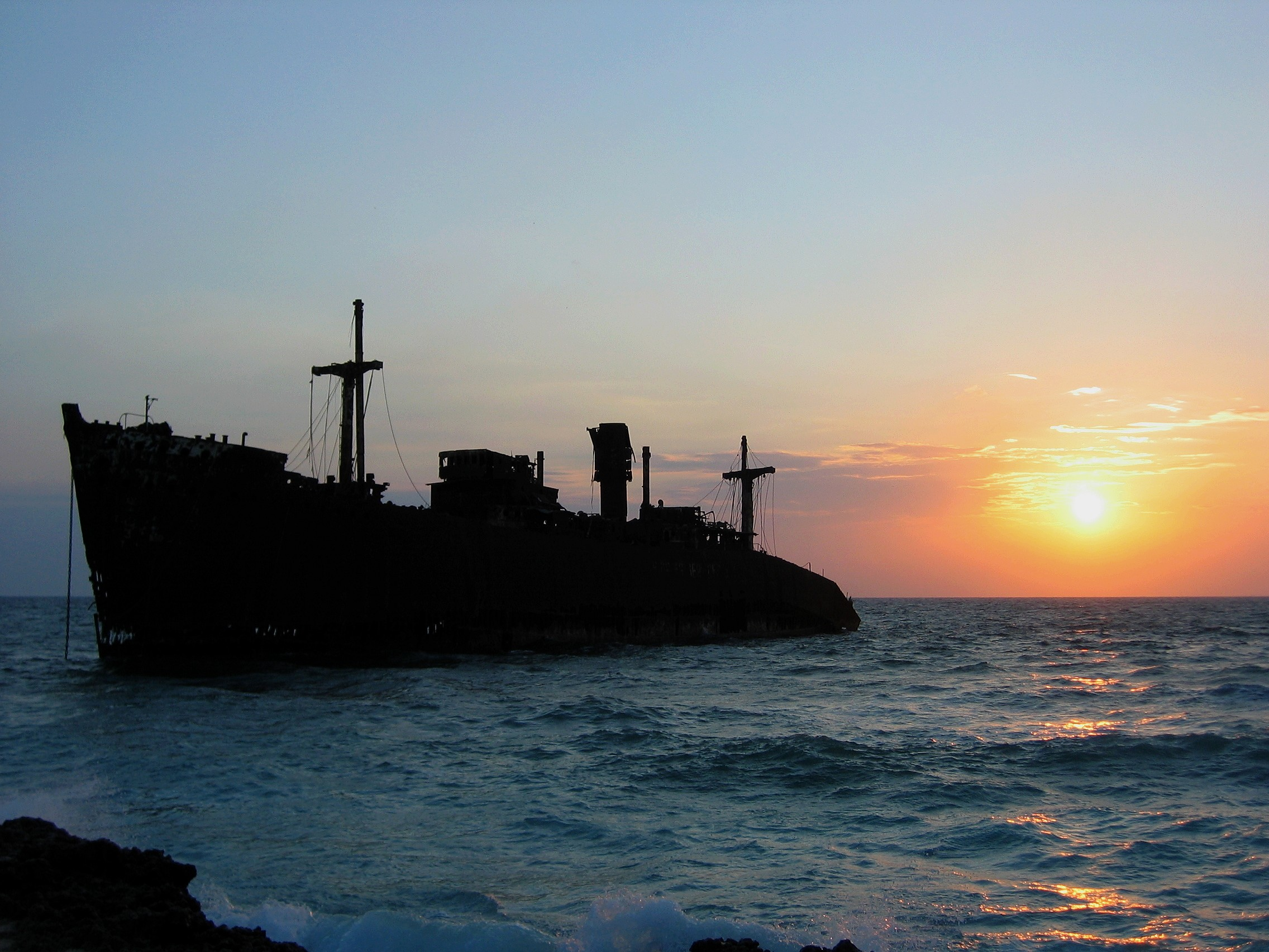 The View of Greek Ship in Sunset, Kish Island